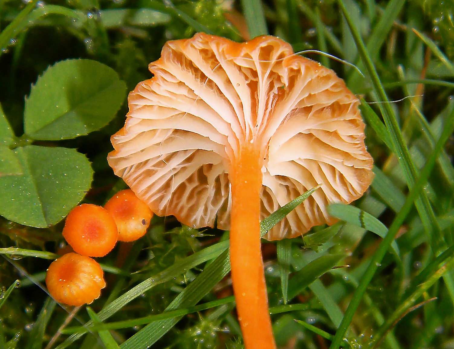 Rickenella fibula (Bulliard: Fries) Raithelhuber Image location: Tim Sage’s Homebase, Shoreline, Washington, USA Recognized by sight For more information about this, see the observation page at Mushroom Observer.